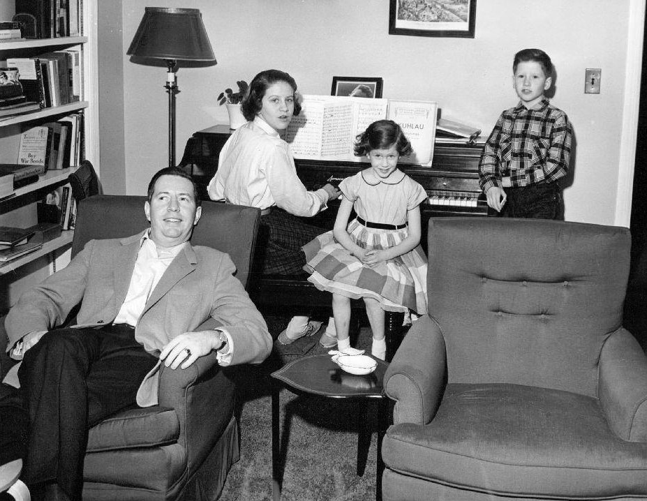 Publicity photo of Douglas Edwards at home with his three children, Lynn, age 13, Donna, age 7 and Bobby, age 9.